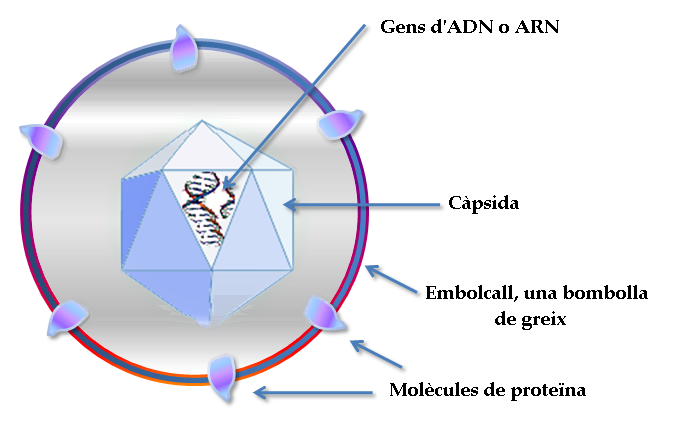 Simplified diagram of the structure of viruses with tags in Catalan.